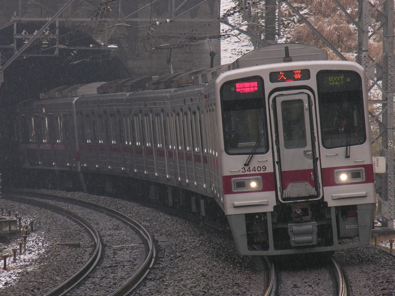 The cars called Tobu Series30000 approaching Tama-Plaza station on the Tokyu Denen-toshi Line. These cars was manufactured for using the trains through hanzomon Line.